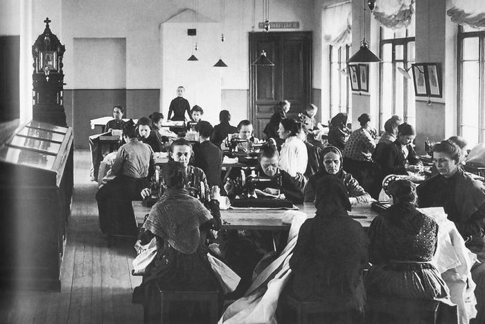 House of Diligence (Kronstadt)